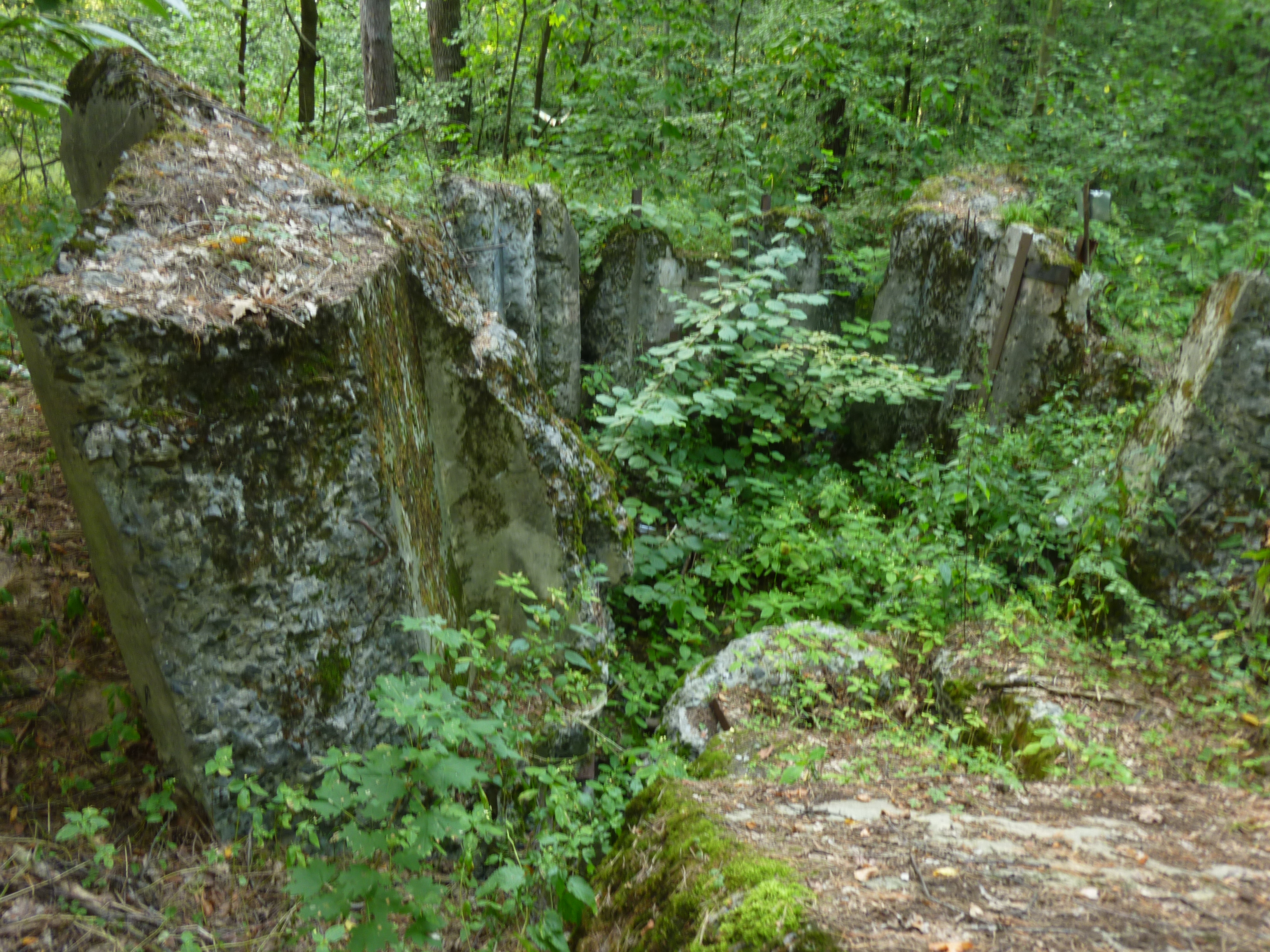 Pillbox 487 (Kyiv Fortified Region)